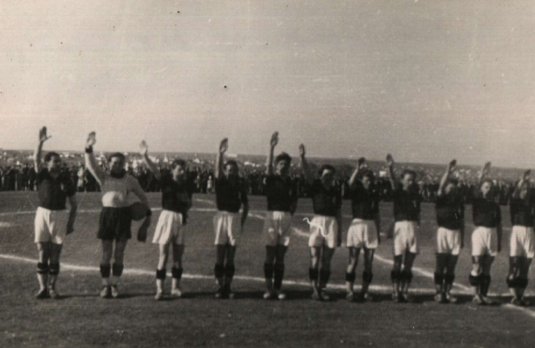 Football Club Levski Dobrich, 26.04.1943